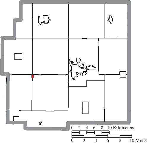 Map of the municipal and township boundaries of Wyandot County, Ohio, United States, as of the 2000 census, with the location of the village of Kirby highlighted. Township borders are shown only in unincorporated areas in order to differentiate incorporated and unincorporated areas more clearly.